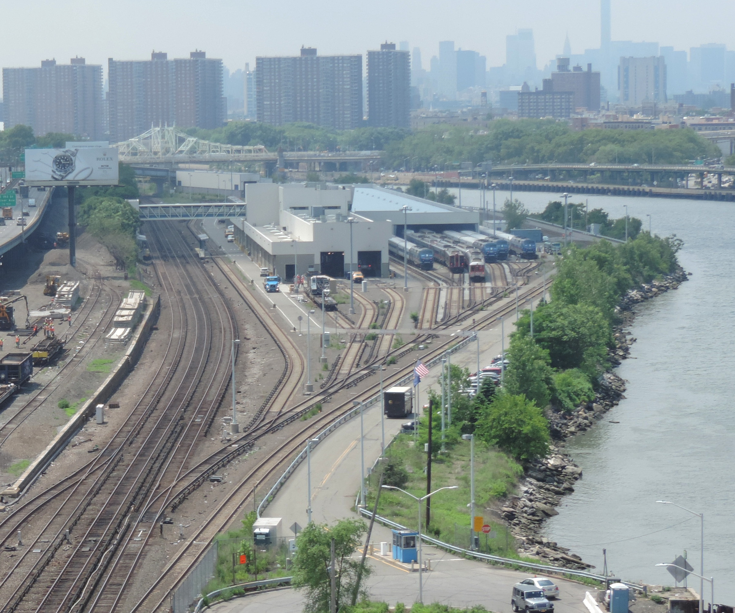 Looking south at the yard on a slightly hazy midday.